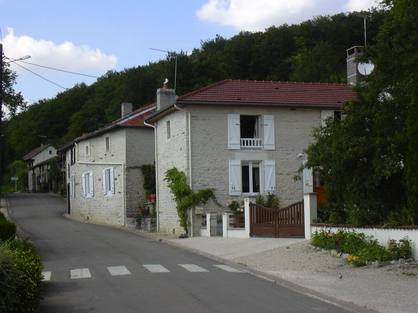 Houses in Rizaucourt-Buchey (Haute-Marne, Champagne-Ardenne, France).